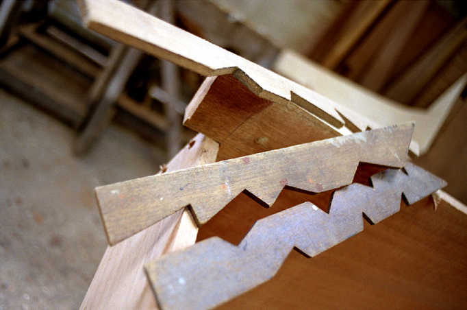 Tool for fitting out of wood, especially used for fitting out of lofts and boats. It enables to pick up and plot different angles on a cutting pattern.